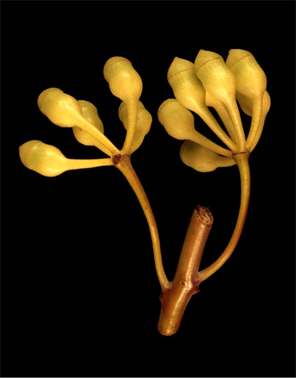 Flower buds of Eucalyptus cylindriflora